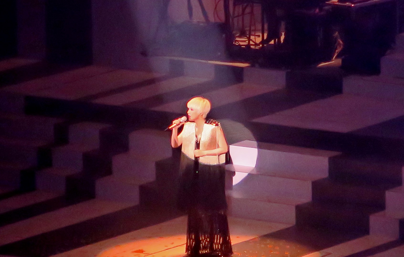 2016年3月5日於紅磡香港體育館舉行《陳慧嫻Priscilla-ism演唱會》